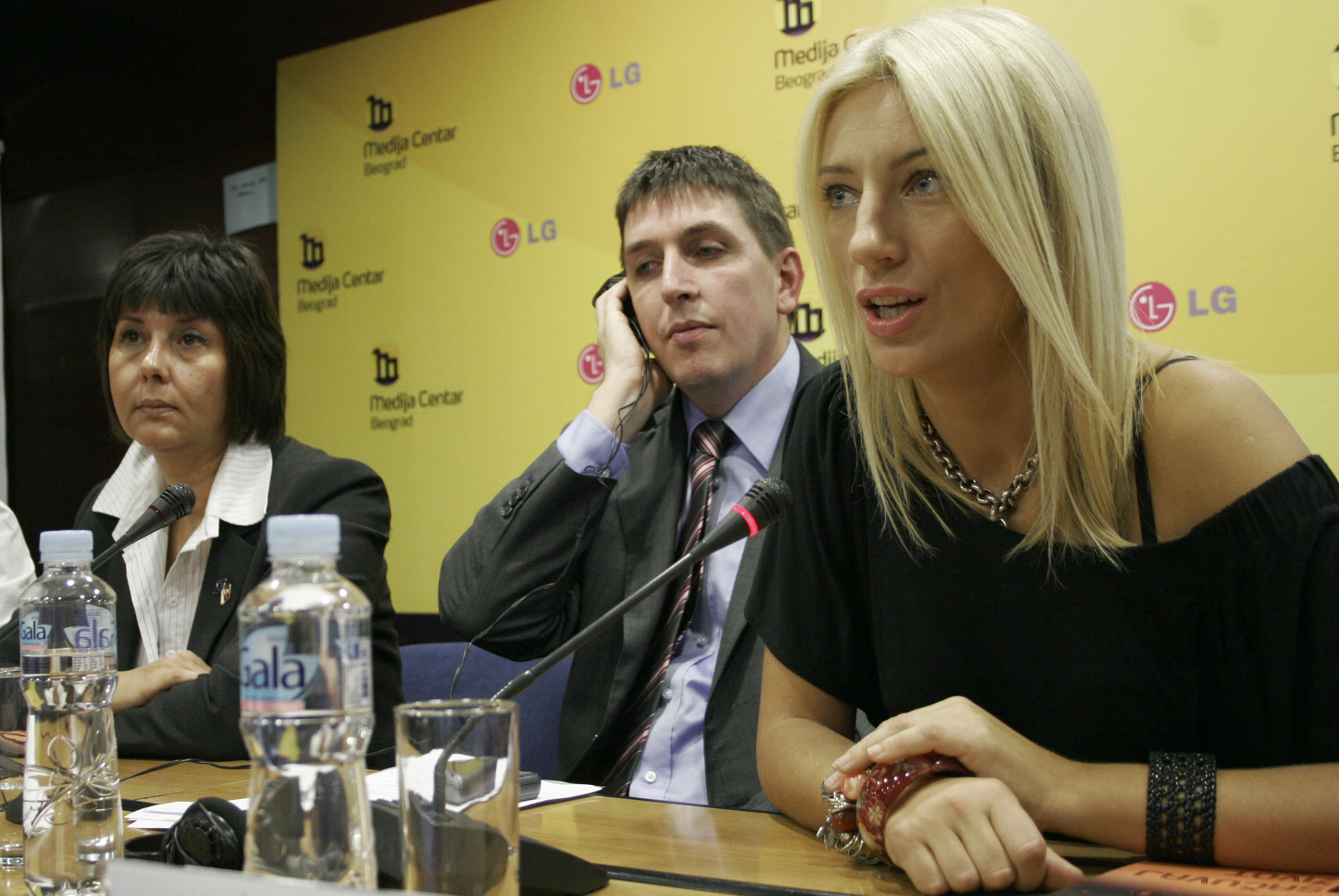 Ana Stanić